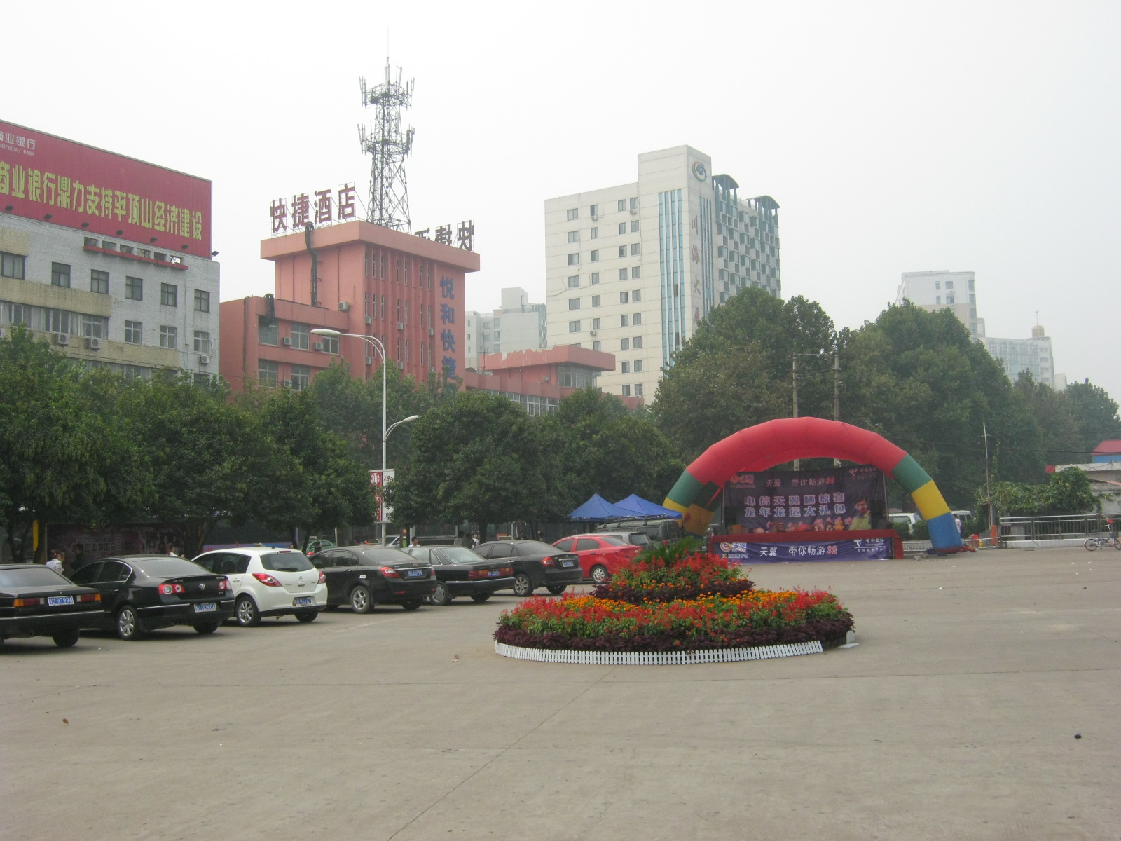 Pingdingshan